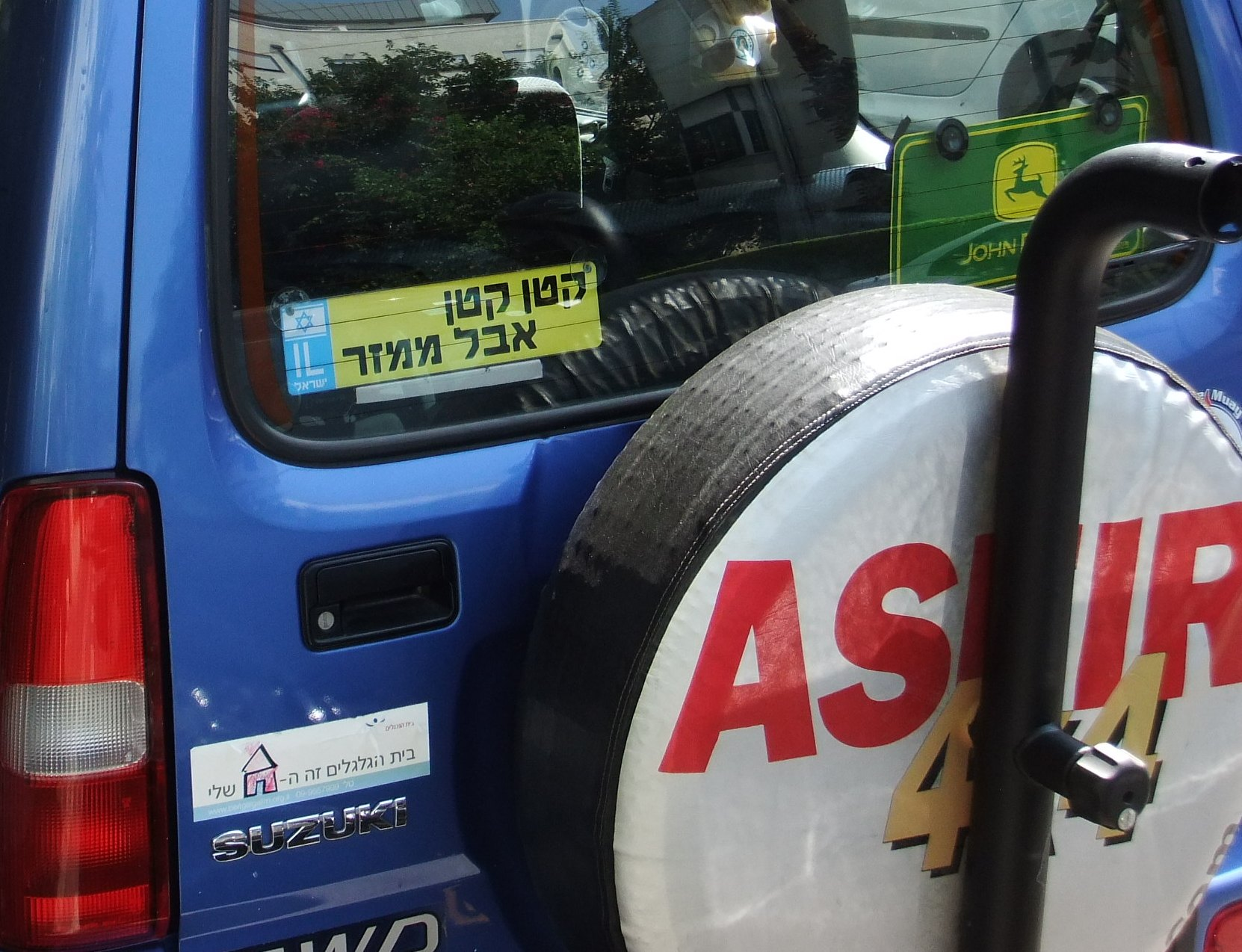 A sticker on a Suzuki in Tel Aviv: small but a bastard